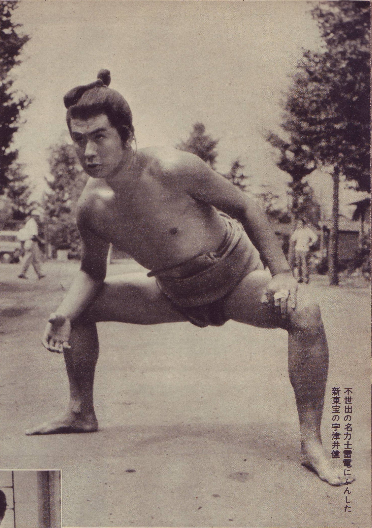 Ken Utsui to play the role of Raiden Tameemon. from "Raiden" (1959 Japanese movie).